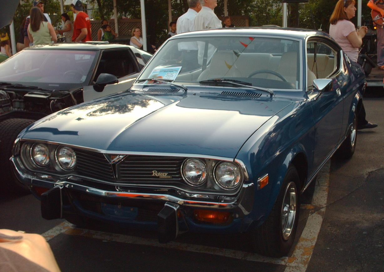 1975 Mazda RX-4 photographed in Montreal, Quebec, Canada at Gibeau Orange Julep.